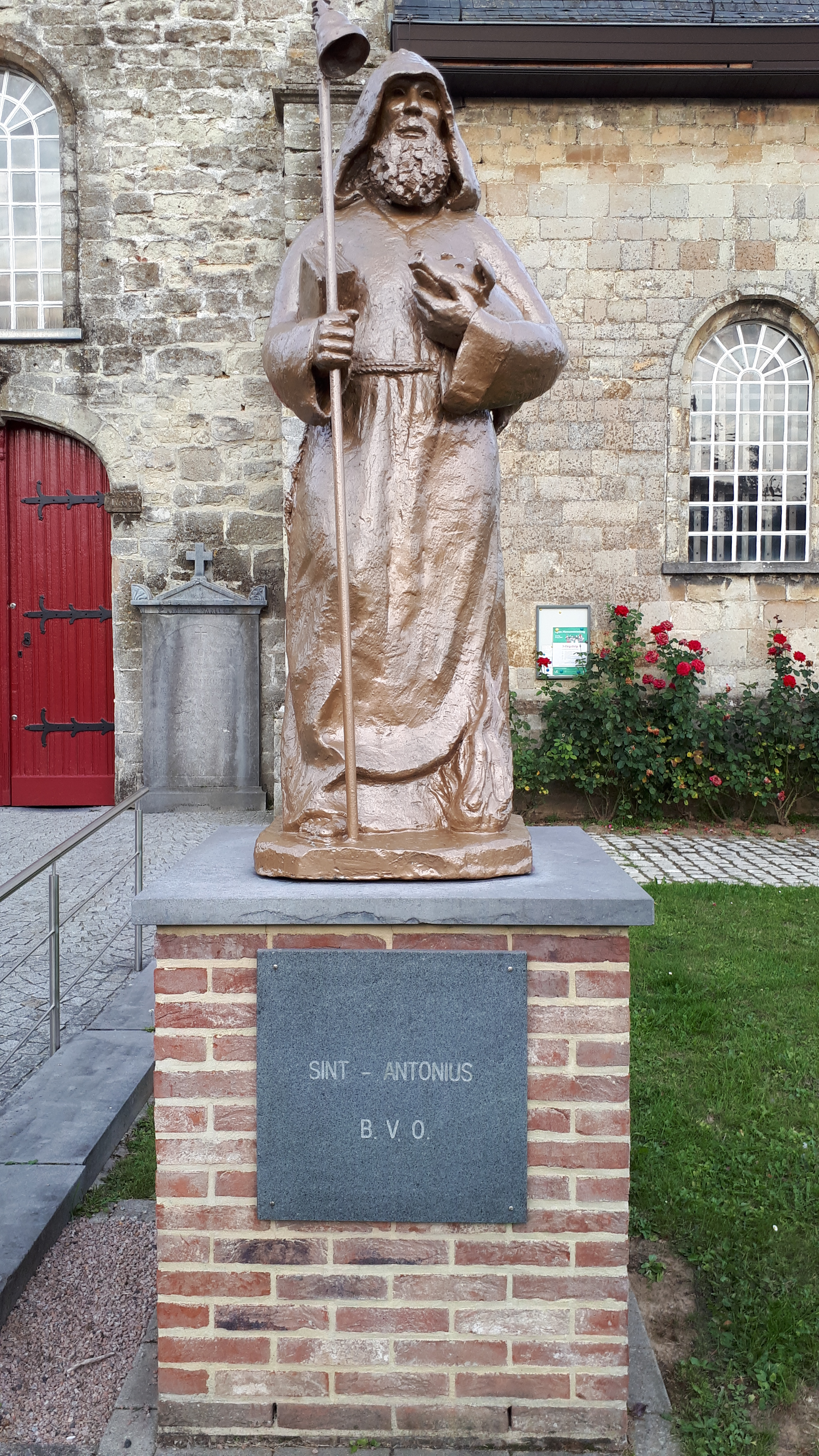 Statue of St Anthony in Essene